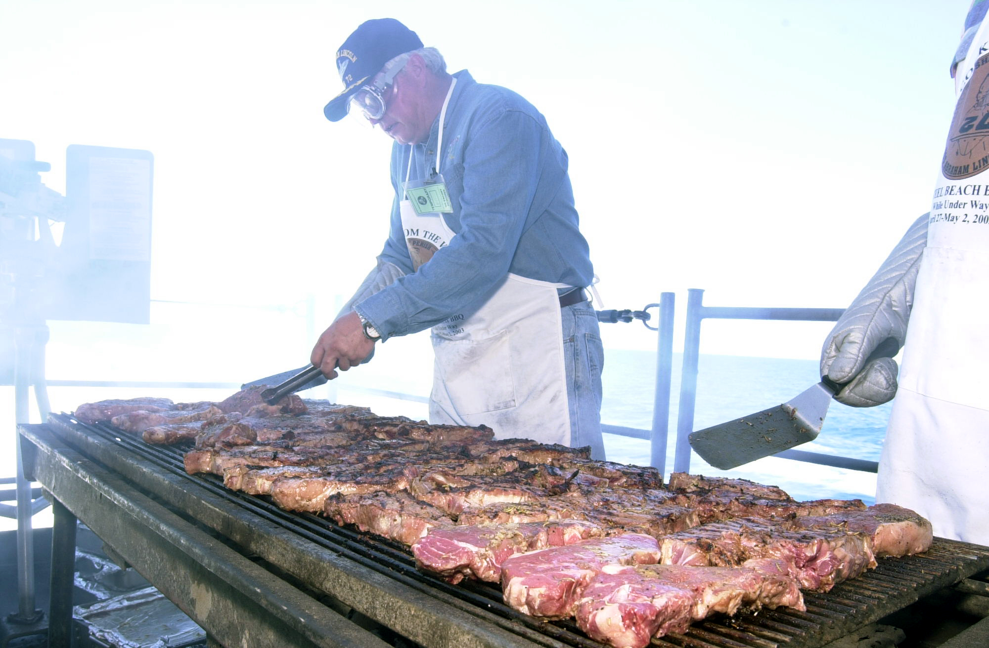 The Pacific Ocean (Apr. 28, 2003) -- Volunteers from Harris Ranch Steakhouse barbecue steaks on the fantail for the crew to show their support for the USS Abraham Lincoln’s (CVN 72) participation in Operation Iraqi Freedom. The volunteers used their own money to buy the steaks for over 5000 crewmembers aboard Lincoln. Lincoln and Carrier Air Wing Fourteen (CVW-14) are returning from their 10 month deployment to the Arabian Gulf in support of Operation Iraqi Freedom. Operation Iraqi Freedom is the multinational coalition effort to liberate the Iraqi people, eliminate Iraq's weapons of mass destruction and end the regime of Saddam Hussein. U.S. Navy photo by Airman Geanine I. Ortez. (RELEASED)